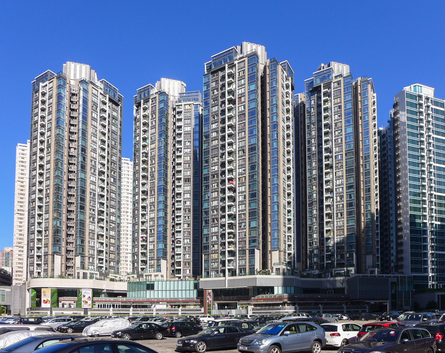 The Wings2